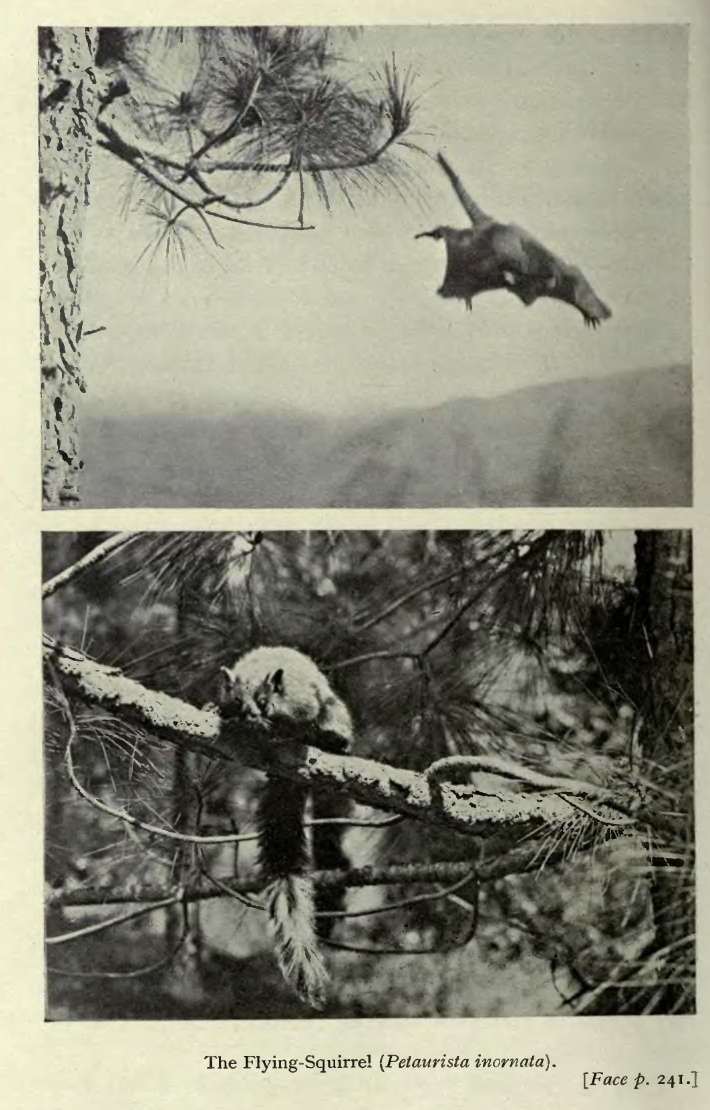 Labelled as Petaurista inornata, a synonym of Petaurista (petaurista) albiventer. Photo from the Hazara region (now in north Pakistan) in the Himalayas